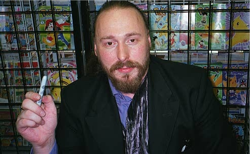 Warren Ellis, comic book writer known for his work in titles such as Hellblazer, Transmetropolitan, Global Frequency, Planetary and The Authority.